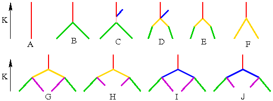 Fomenko-graphs of the Kovalevskaja top from Richter, Dullin und Wittek (1997)